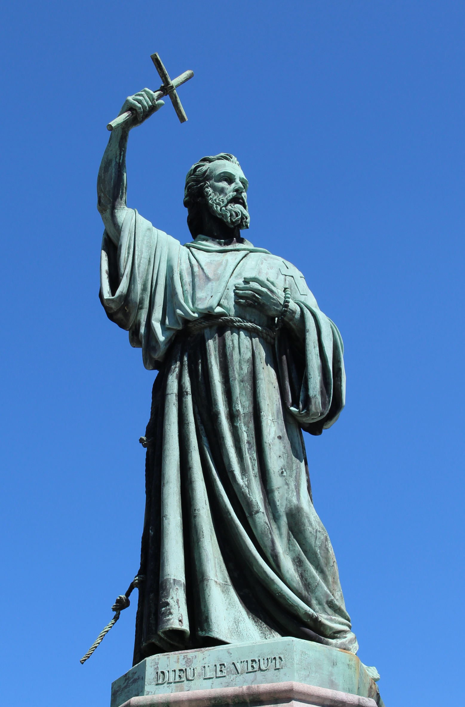 Statue of Saint Peter the Hermit (Saint Peter of Amiens). Work made by Gédéon de Forceville erected behind the Cathedral of Our Lady of Amiens and unveiled in 1854.